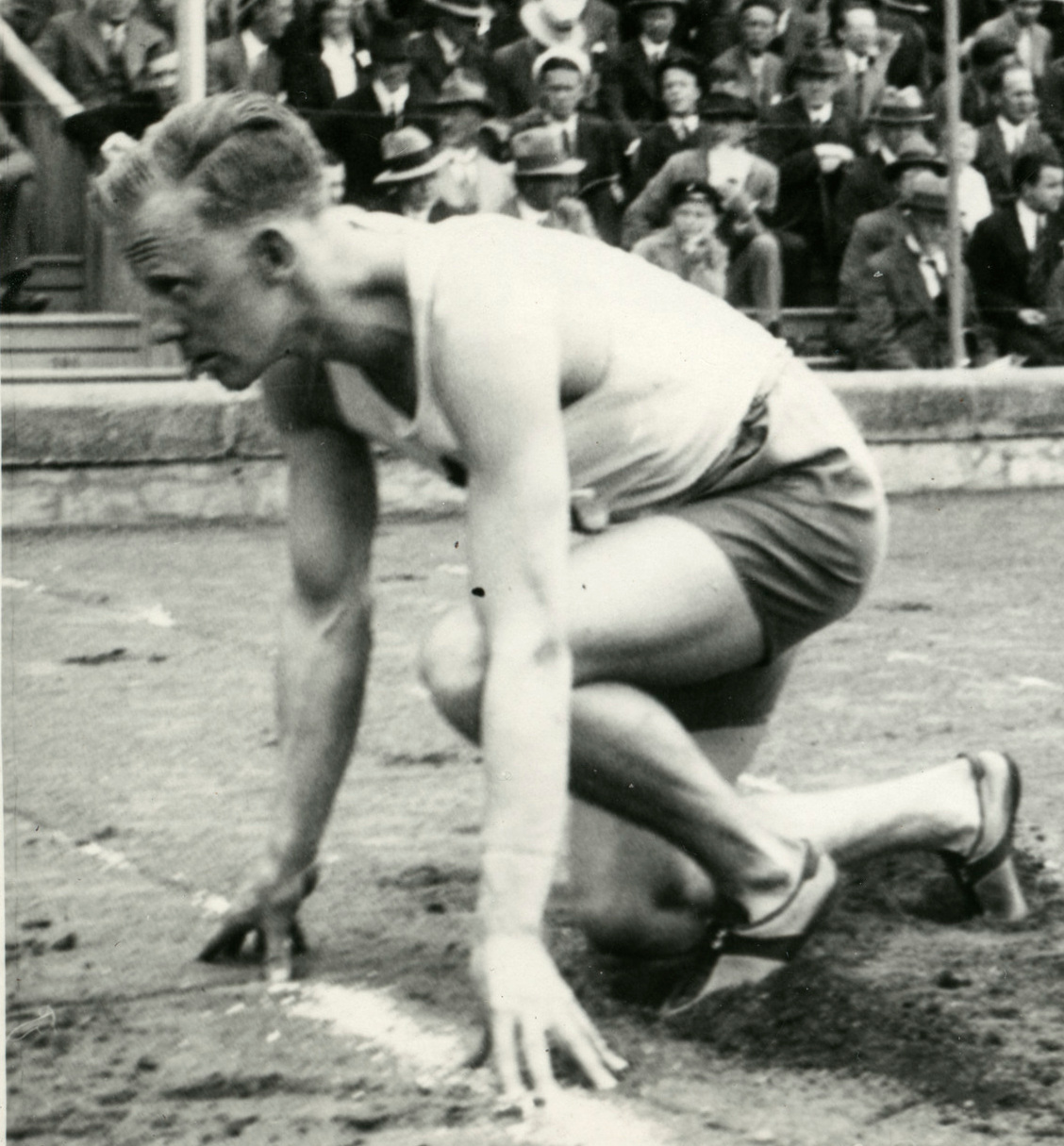 Björn Kugelberg at the Swedish national championships